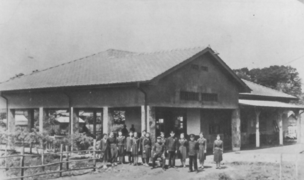 Niikura Station (present-day Wakoshi Station) on the Tojo Railway Line (present-day Tobu Tojo Line)